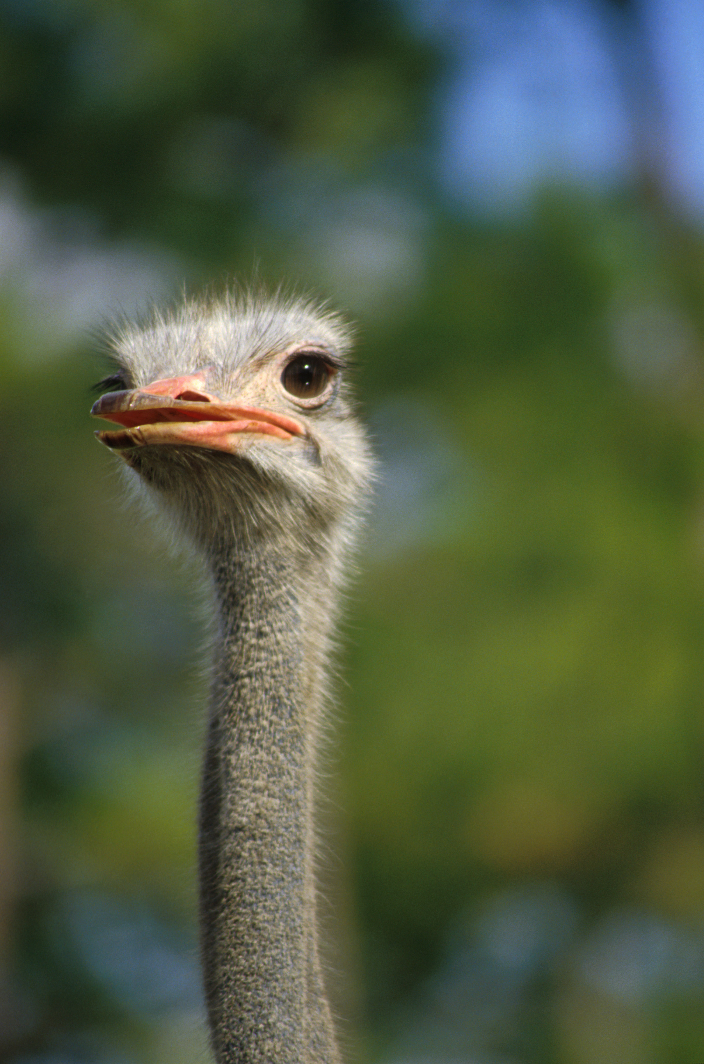 Ostrich